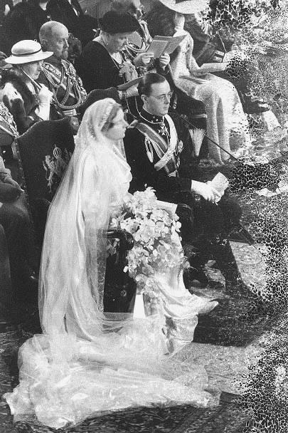 Marriage of Princess Juliana of the Netherlands with Bernhard zur Lippe-Biesterfeld